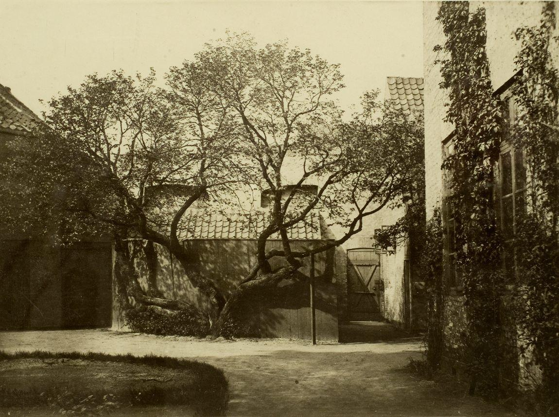 The University of Copenhagen's botanical garden at Charlottenborg in Copenhagen, Denmark